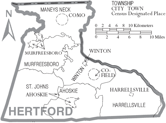 Map of Hertford County, North Carolina, United States with township and municipal boundaries